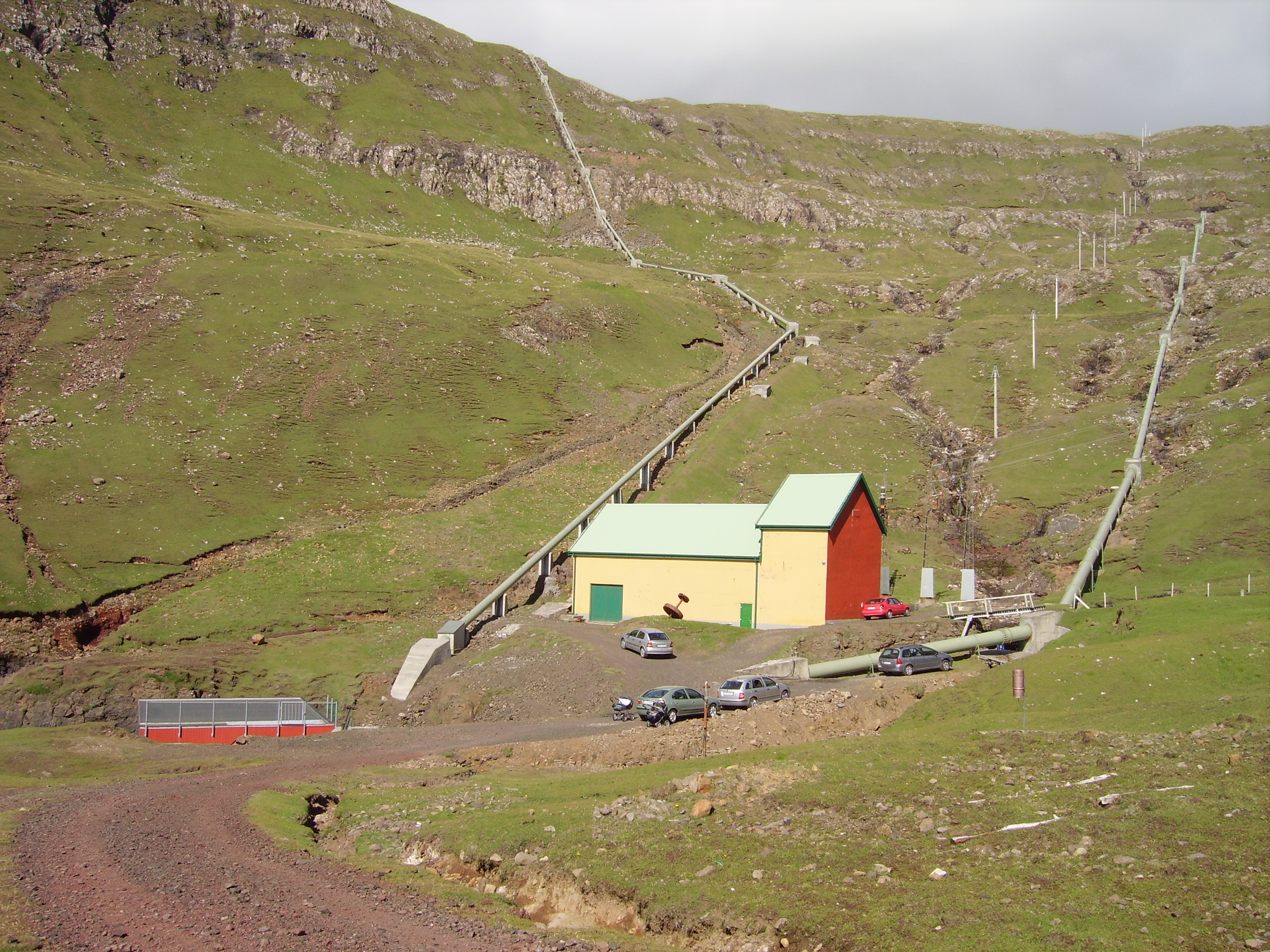 The hydro-electric powerplant in Botni was built in 1920-21, ready to use in 1921. The people in Vágur celebrated the opening of this first electric power plant in the Faroes on 18 July 1921. The mayor, Petur Dahl, also known as Petur á Gørðunum, arranged a party in the public school, where he switched on the ligths for the first time. The hydro-electric powerplant in Botni is still in use, but in 1982 an additional powerplant was built on Oyrarnar in Vágur, next to the sea on the southern side of the fjord. These two powerplants provide electricity to the island Suðuroy, which is not connected to the main area due to large distance. When they have a black-out in the main area of the Faroes, Suðuroy still has power and vice-versa. In 1963 Elfelagið Suðuroy joined SEV, which is for the whole country (Faroe Islands). Føroyskt: Vatnorkuverkið í Botni (elektrisitetsverkið í Botni), Botnur í Vági, var bygt í 1921 og var tað fyrsta av sínum slag í Føroyum. Tað er enn í nýtslu og veit streym til borgarar og virki í Suðuroynni, saman við elverkinum á Oyrunum í Vági og elverkinum í Trongisvági. Vatnorkuverkið í Botni er tað einasta vatnorkuverkið í Suðuroynni. Onnur vatnorkuverk eru: Heygaverkið, Fossáverkið, Mýruverkiðm Eiðisverkið og Strond. Tað var Vágs kommuna ið bygdi verkið. Borgarstjóri tá var Petur Dahl, eisini kendur sum Petur á Gørðunum.